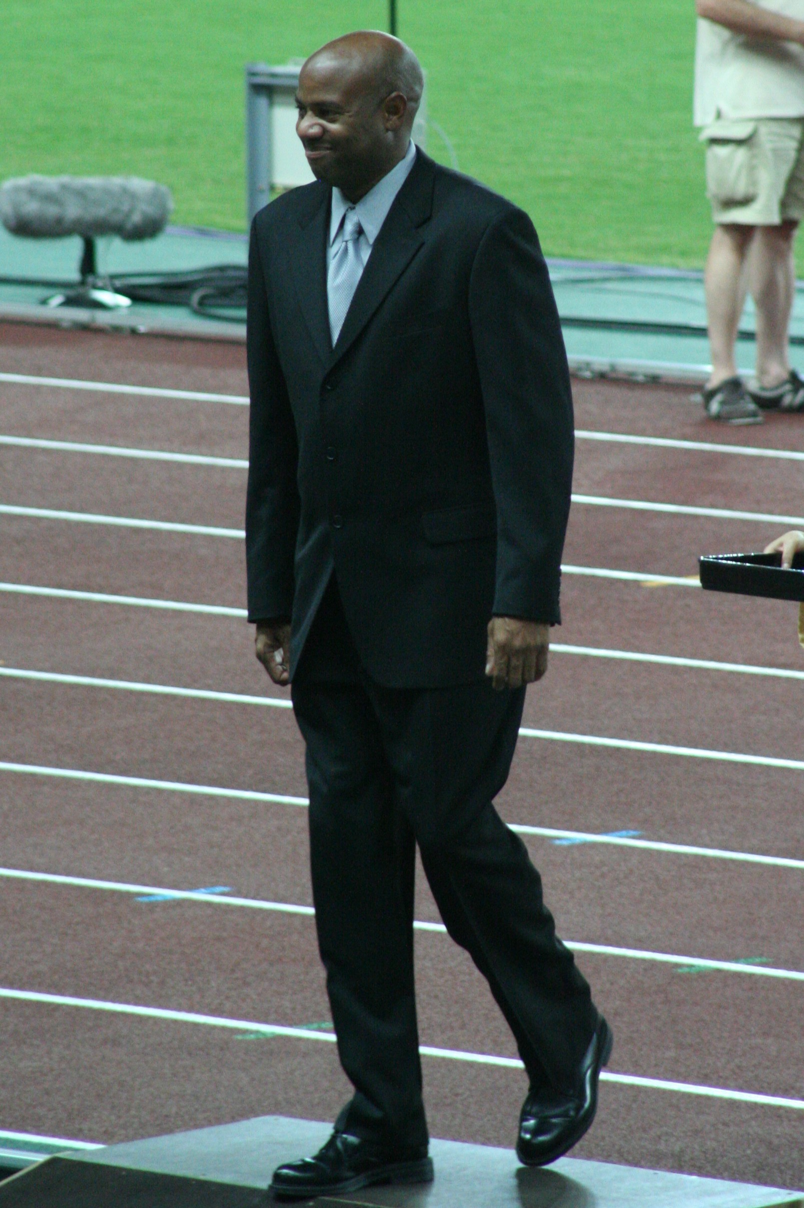 World Athletics Championships 2007 in Osaka - Men*s long jump world record holder Mike Powell while assisting a victory ceremony at the 2007 championships